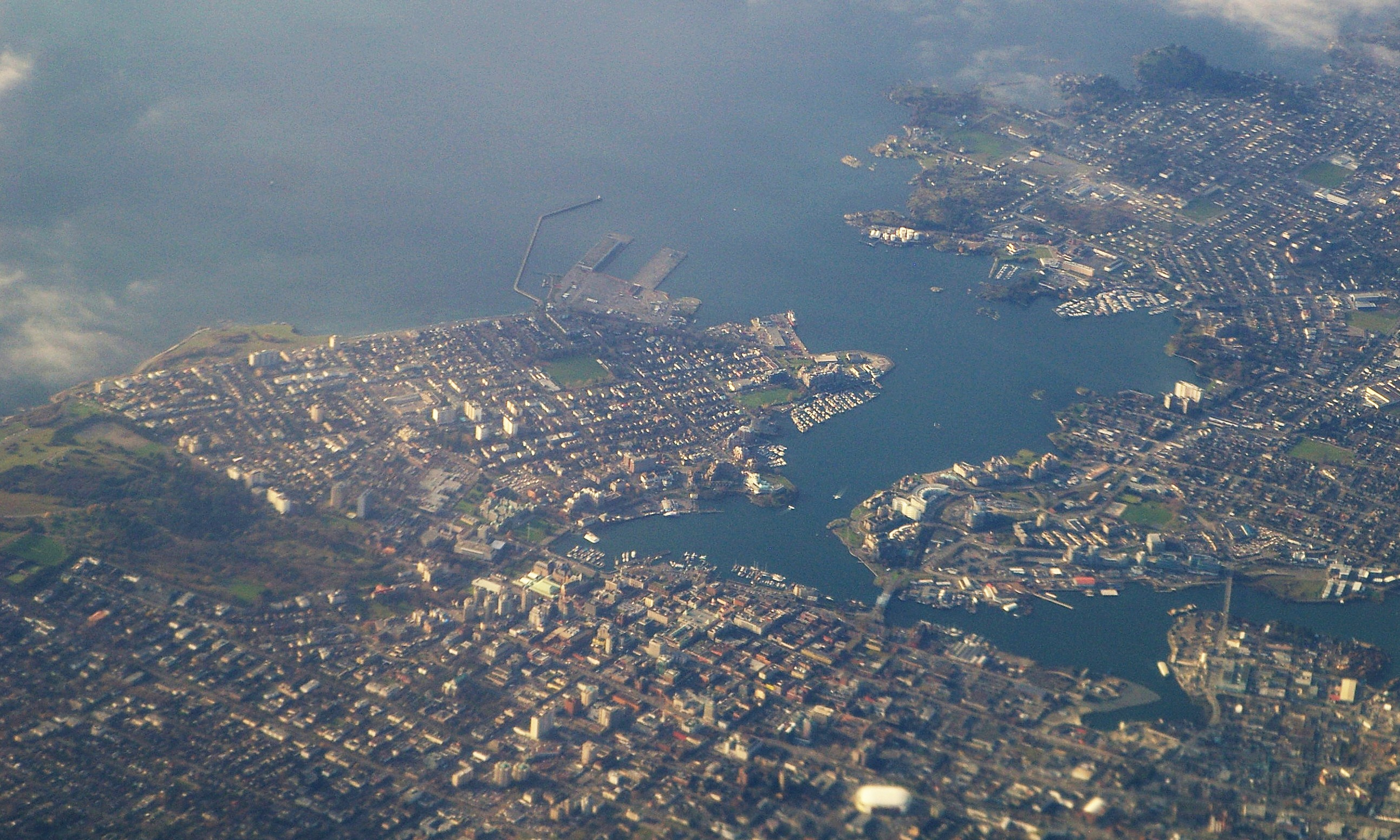 Victoria, BC, on Vancouver Island, Canada